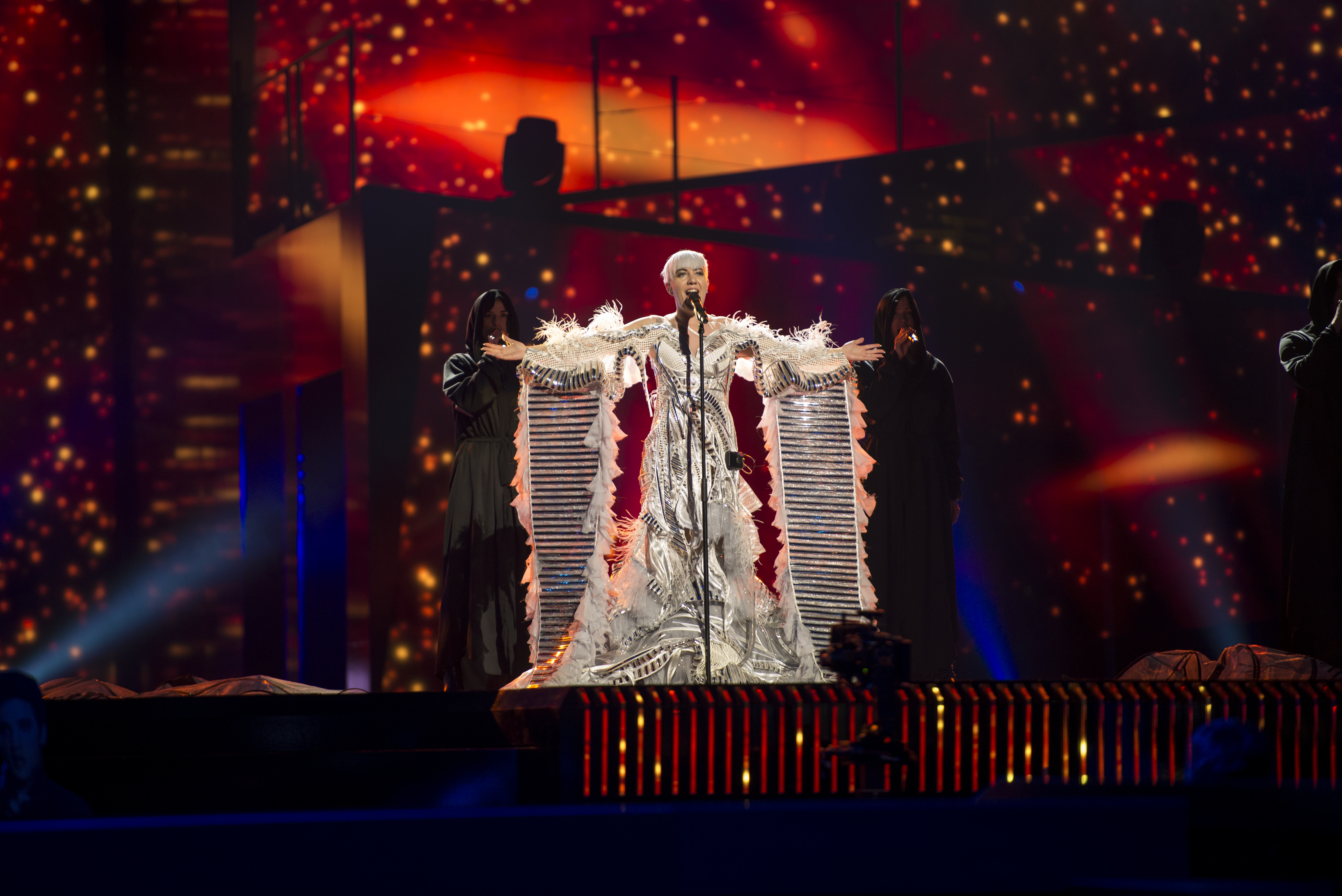 Nina Kraljić representing Croatia with the song "Lighthouse" during a rehearsal before the first semi final of the Eurovision Song Contest 2016 in Stockholm. (Help translate this text)